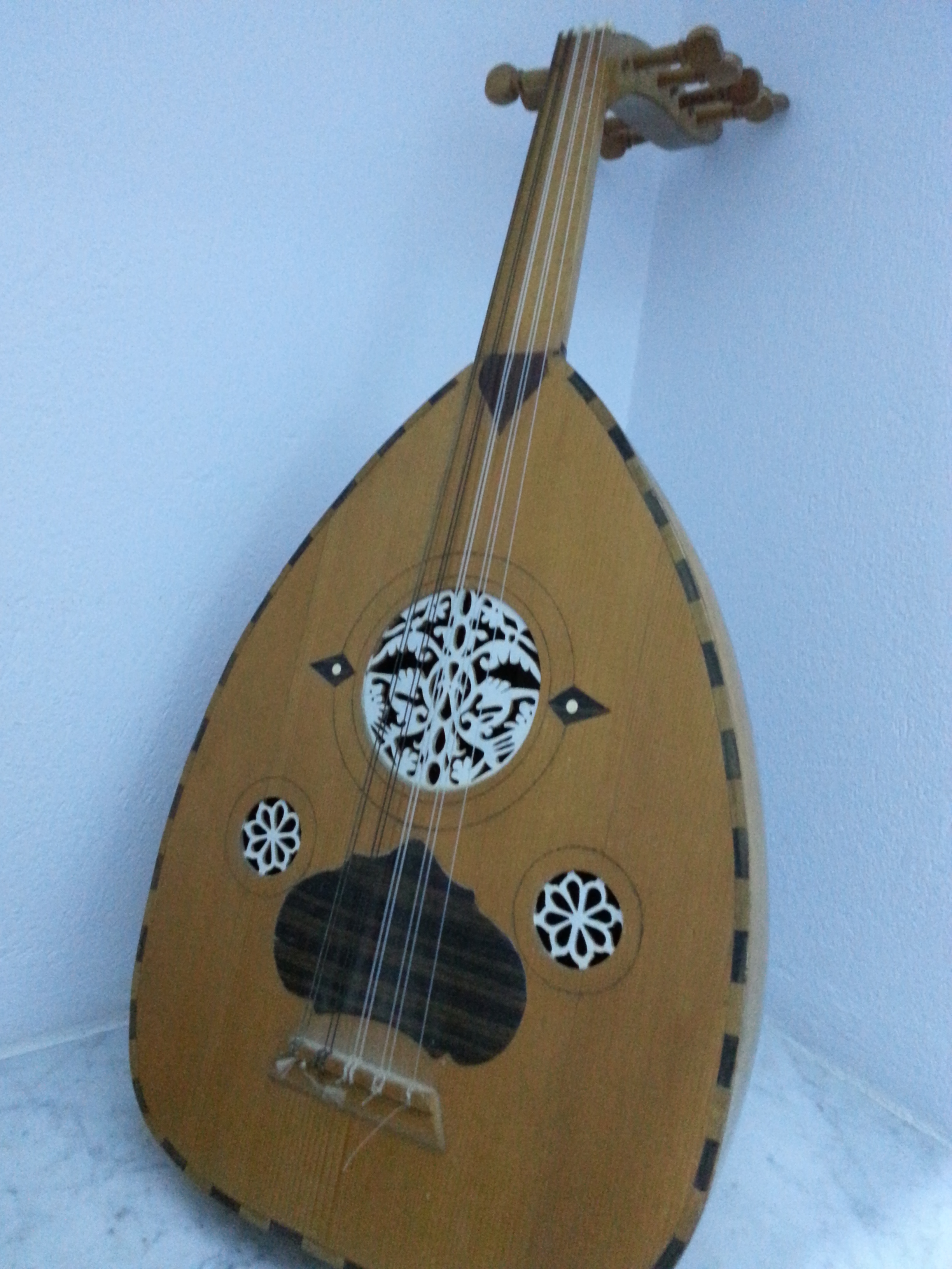 music instrument